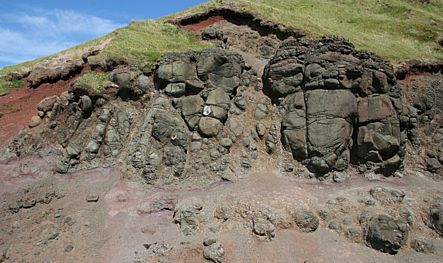 Spheroidal Weathering Also called onionskin weathering, this occurs when volcanic rocks are exposed to the elements. The surface disintegrates in layers, leaving roughly sheprical shaped behind.